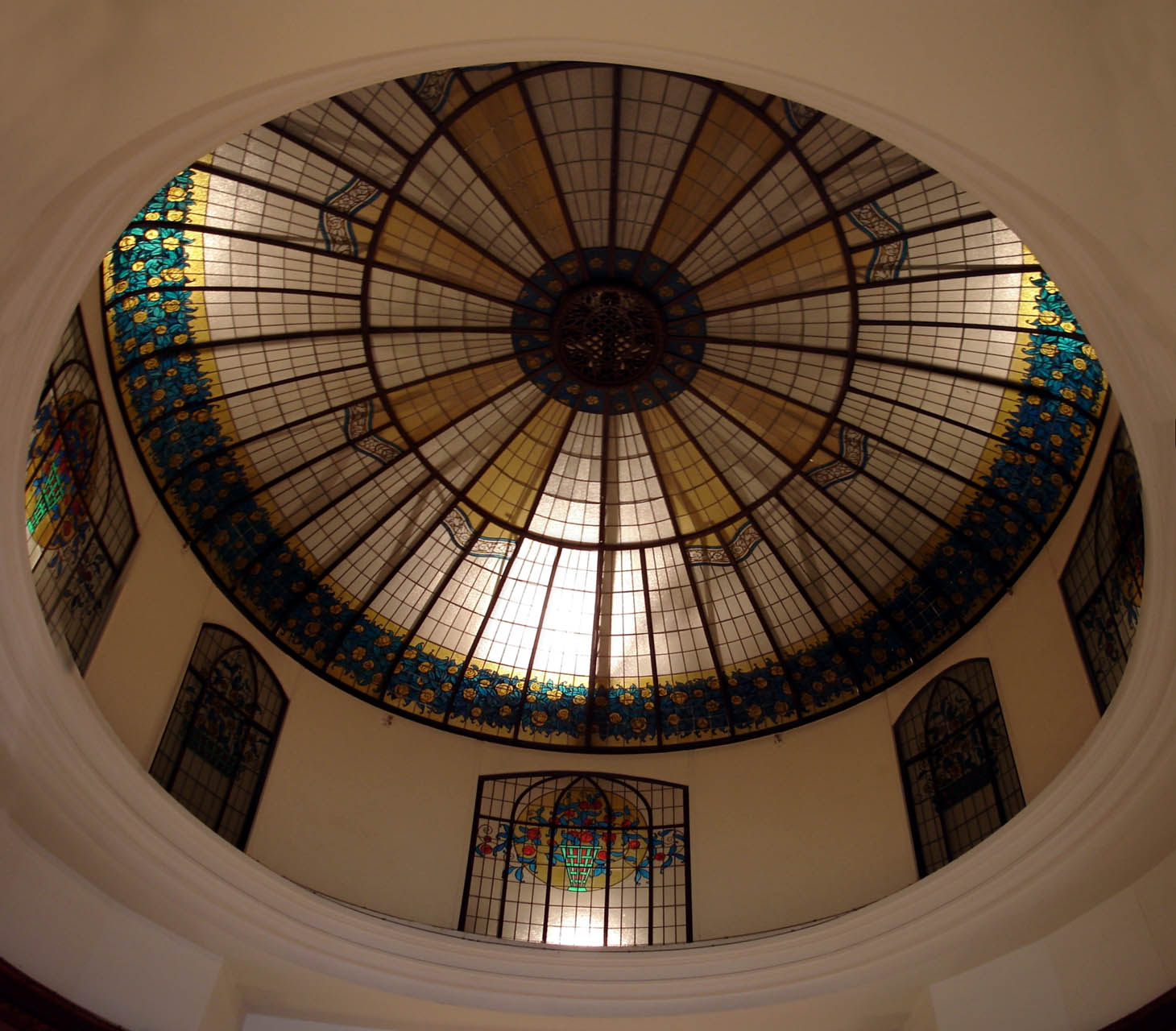 The dome of Passage des Princes, a mall listed as historical monument located in the 2nd arrondissement of Paris in France.